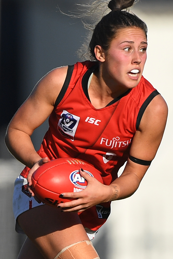 Hayley Bullas of Essendon during the 2019 VFLW Round 7 match between NT Thunder and Essendon at TIO Stadium on 22 June 2019 in Darwin, Australia.